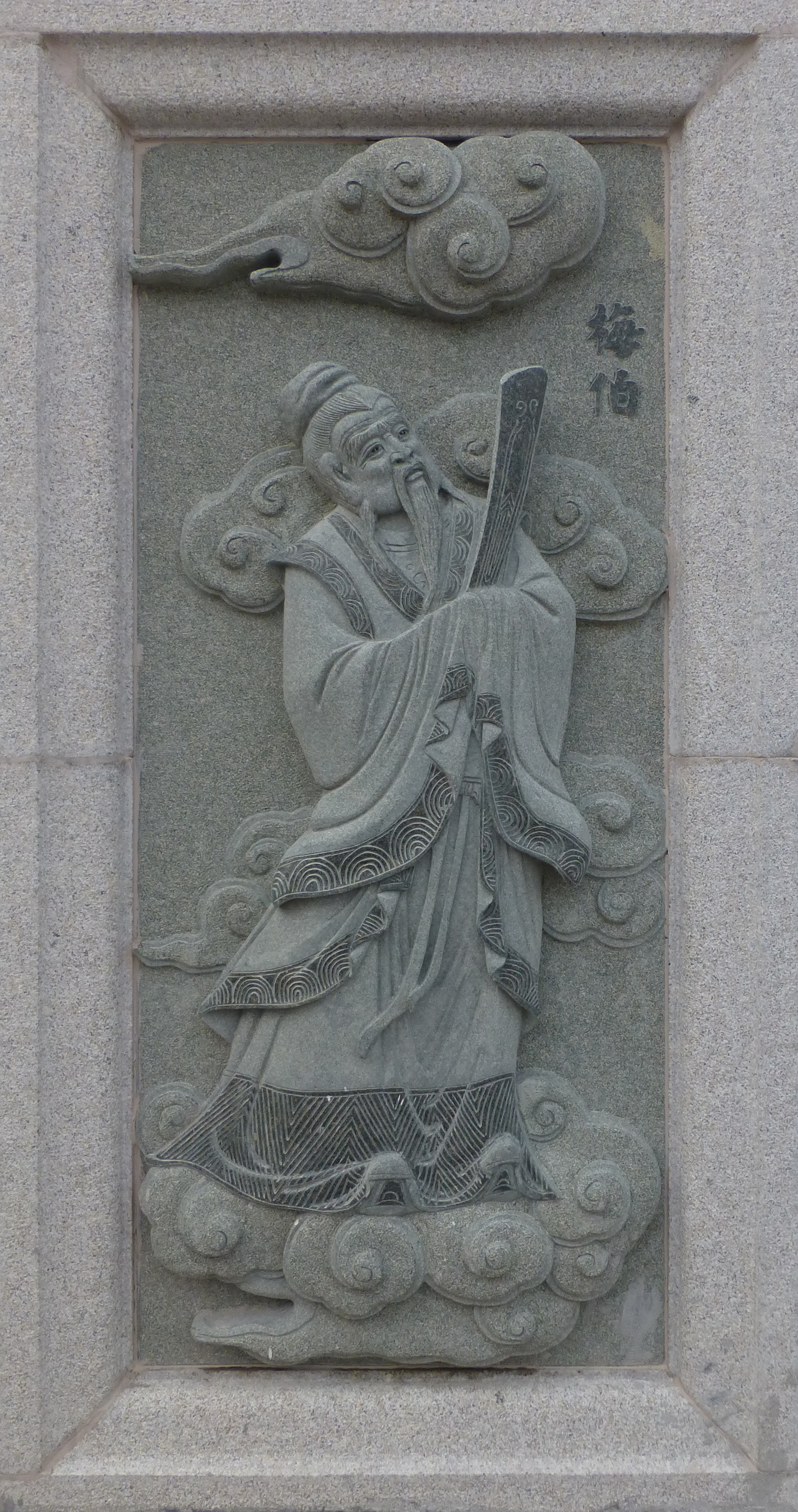 031 Mei bo of Shang, Investiture of the Gods at Ping Sien Si, Pasir Panjang, Perak, Malaysia Photograph from the Ping Sien Si Temple in Perak, Malaysia taken by Anandajoti.